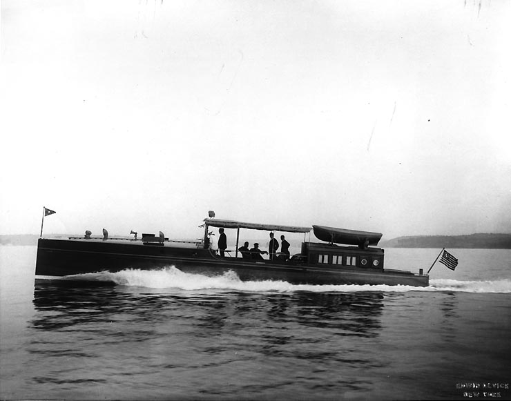 The motor yacht Get There prior to her service as United States Navy patrol vessel USS Get There (SP-579)